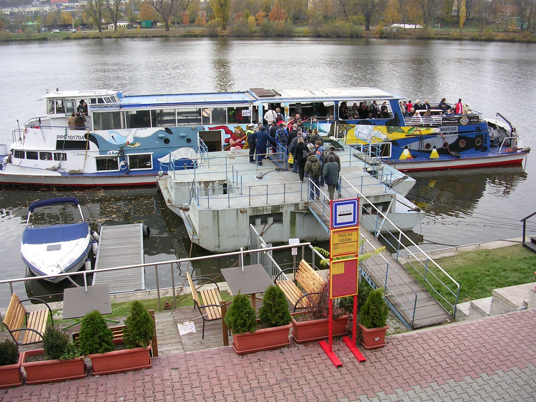 Podolí, Prague. Substitute ship line.